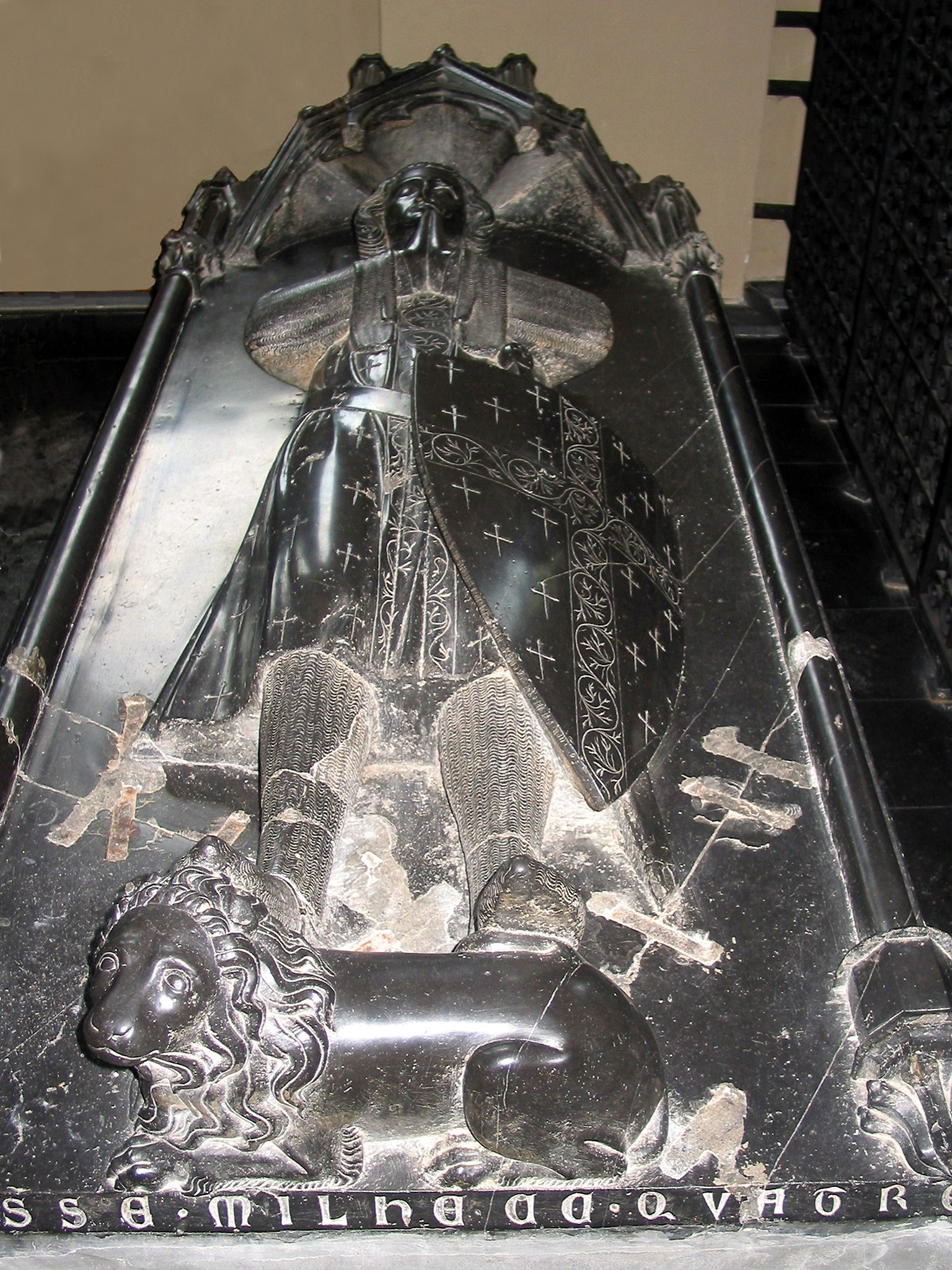 Houffalize (Belgium), Saint Catherine church - Lying of Thierry II de Houffalize in black limestone (13th century).